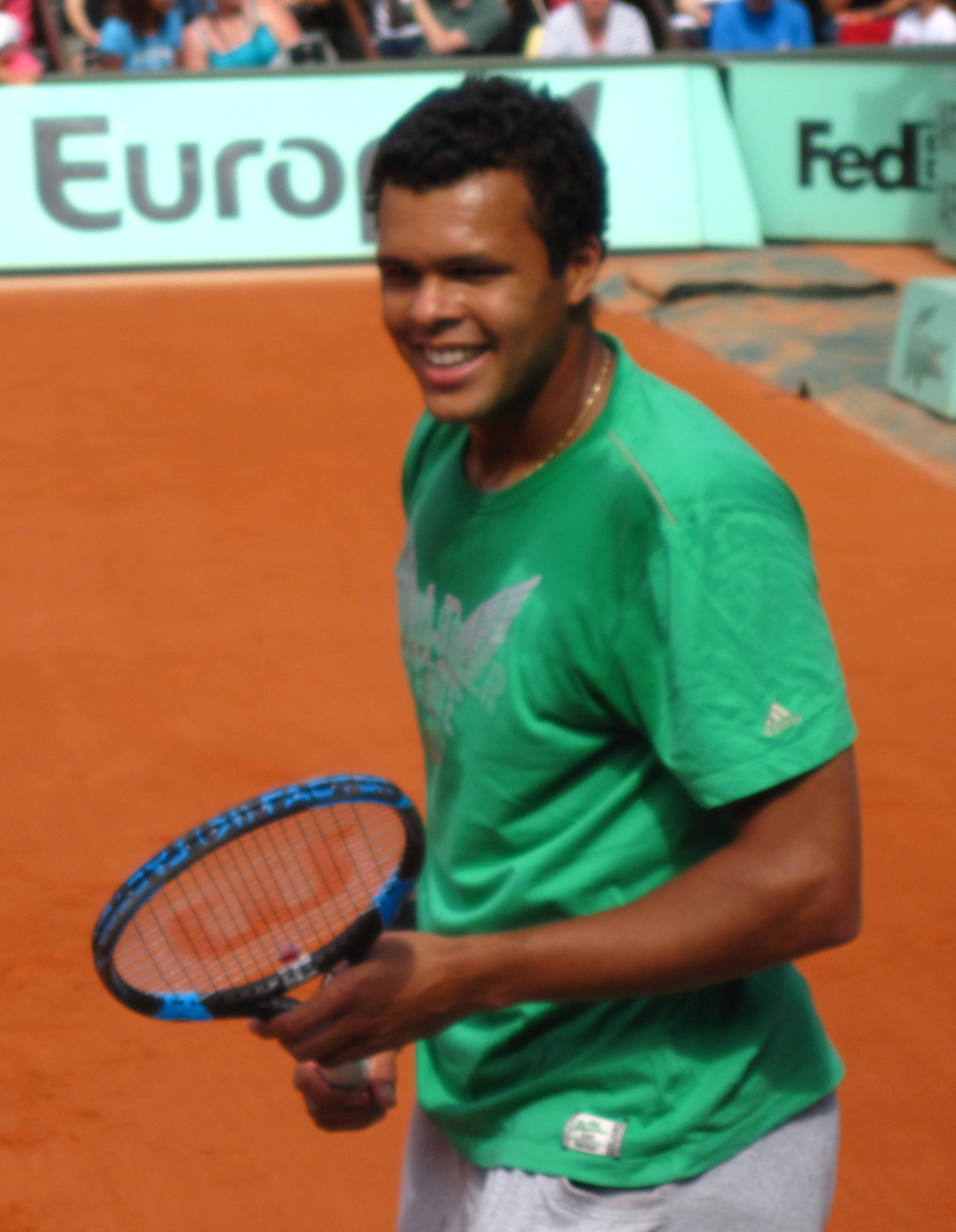 Jo-Wilfried Tsonga at 2009 Roland Garros, Paris, France